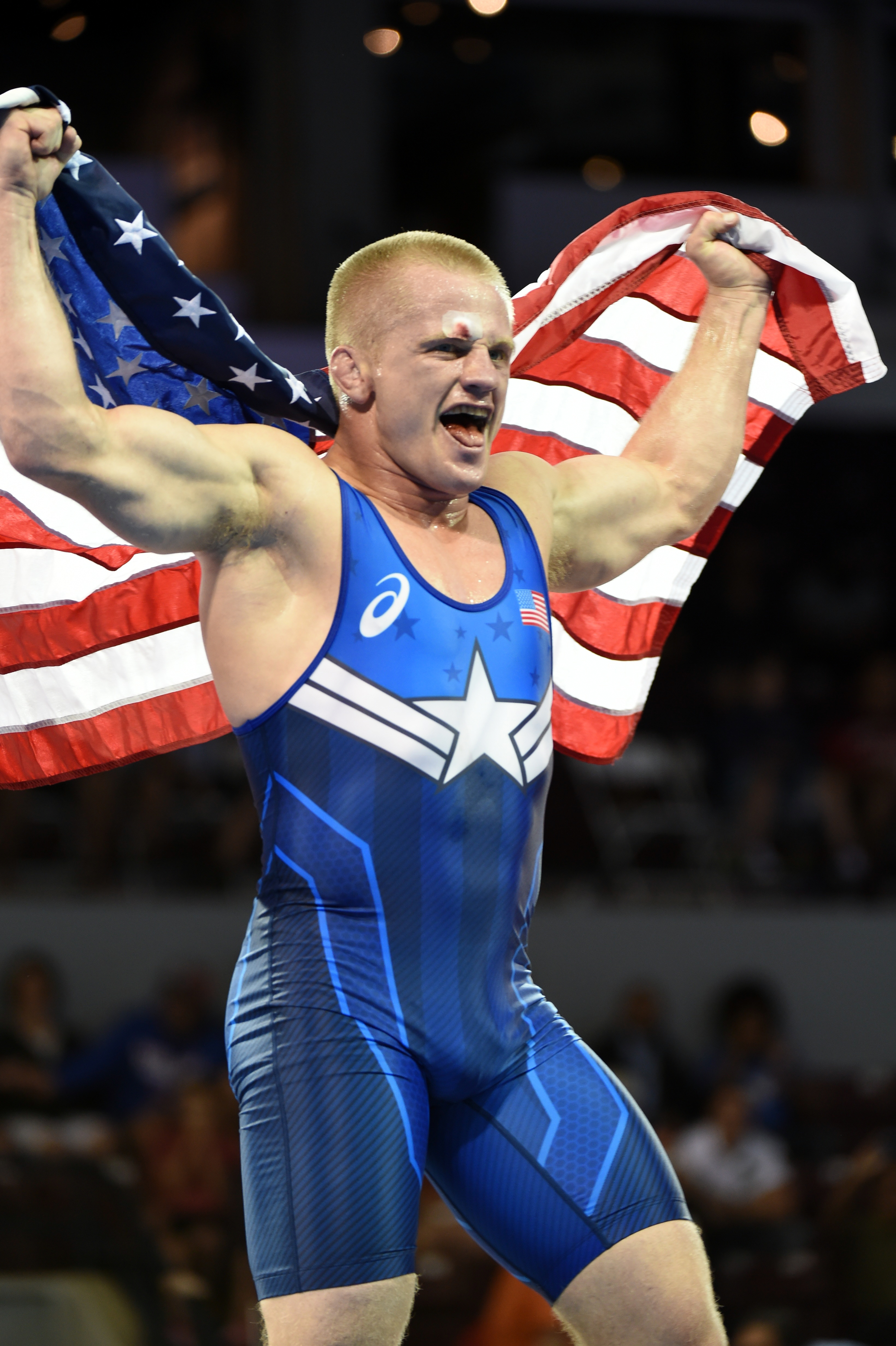 CaptAmericaFlag3264